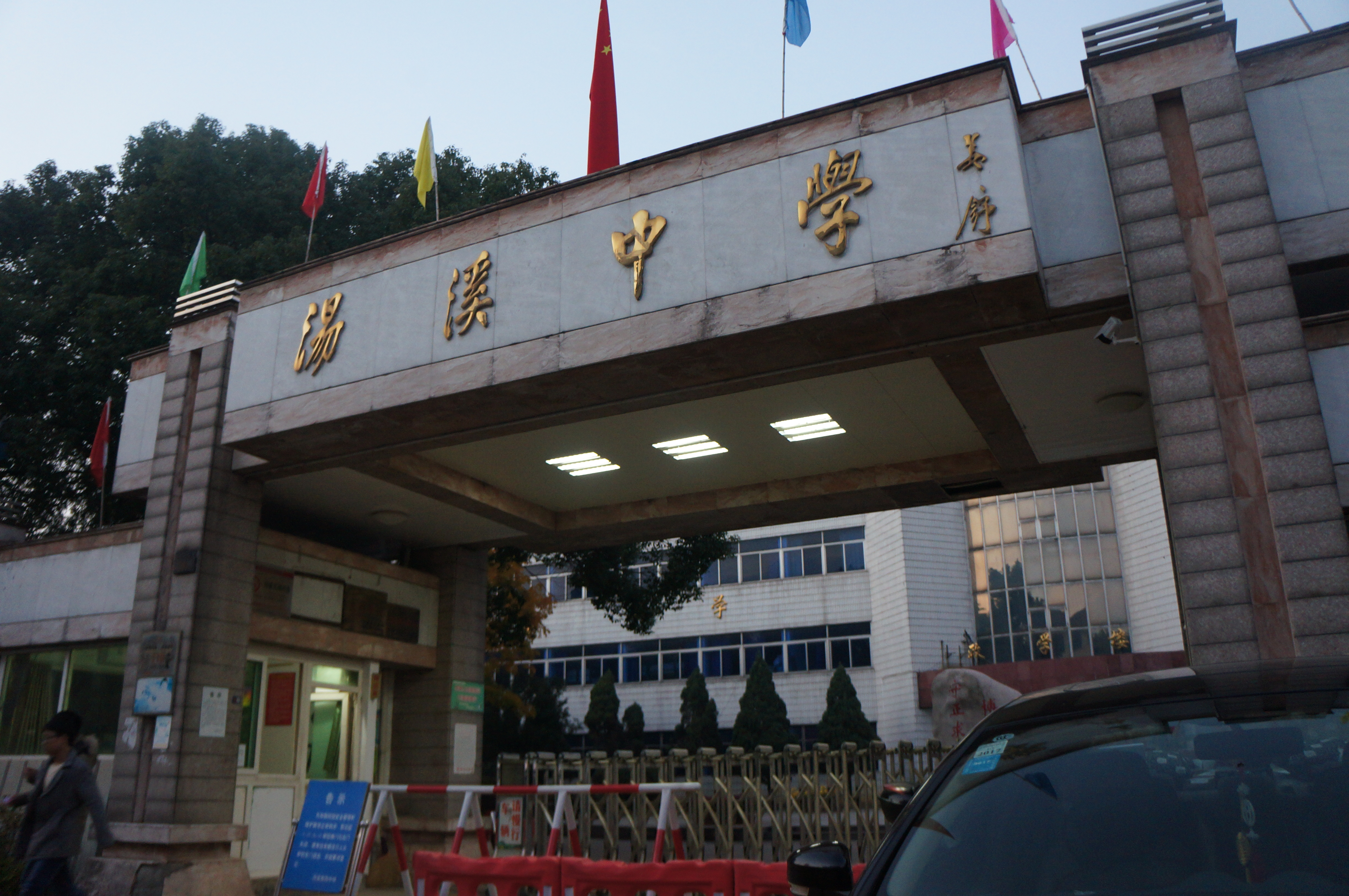 201612 Tangxi High School (unknown official name)